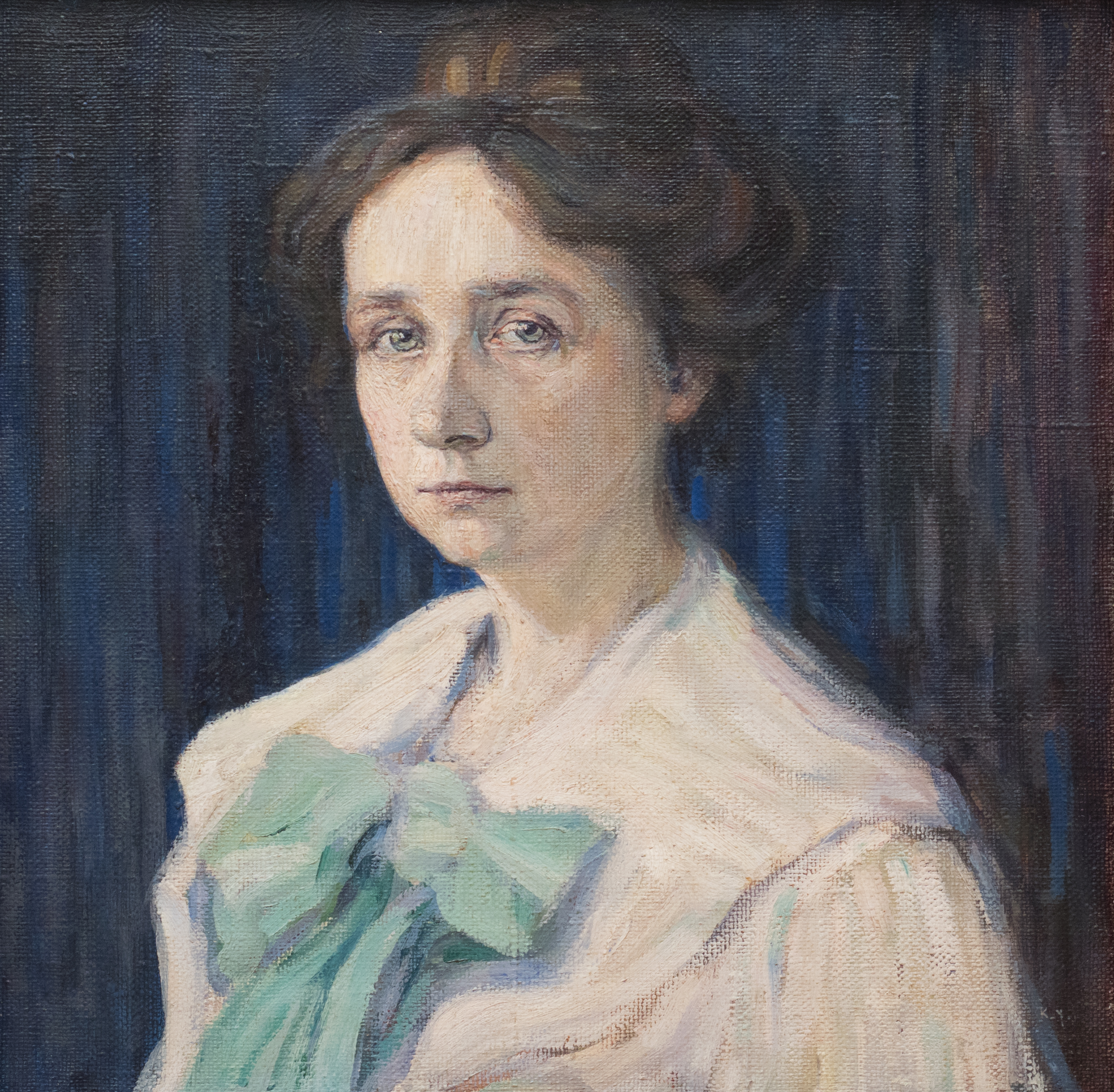 Portrait of Gabriele Münter